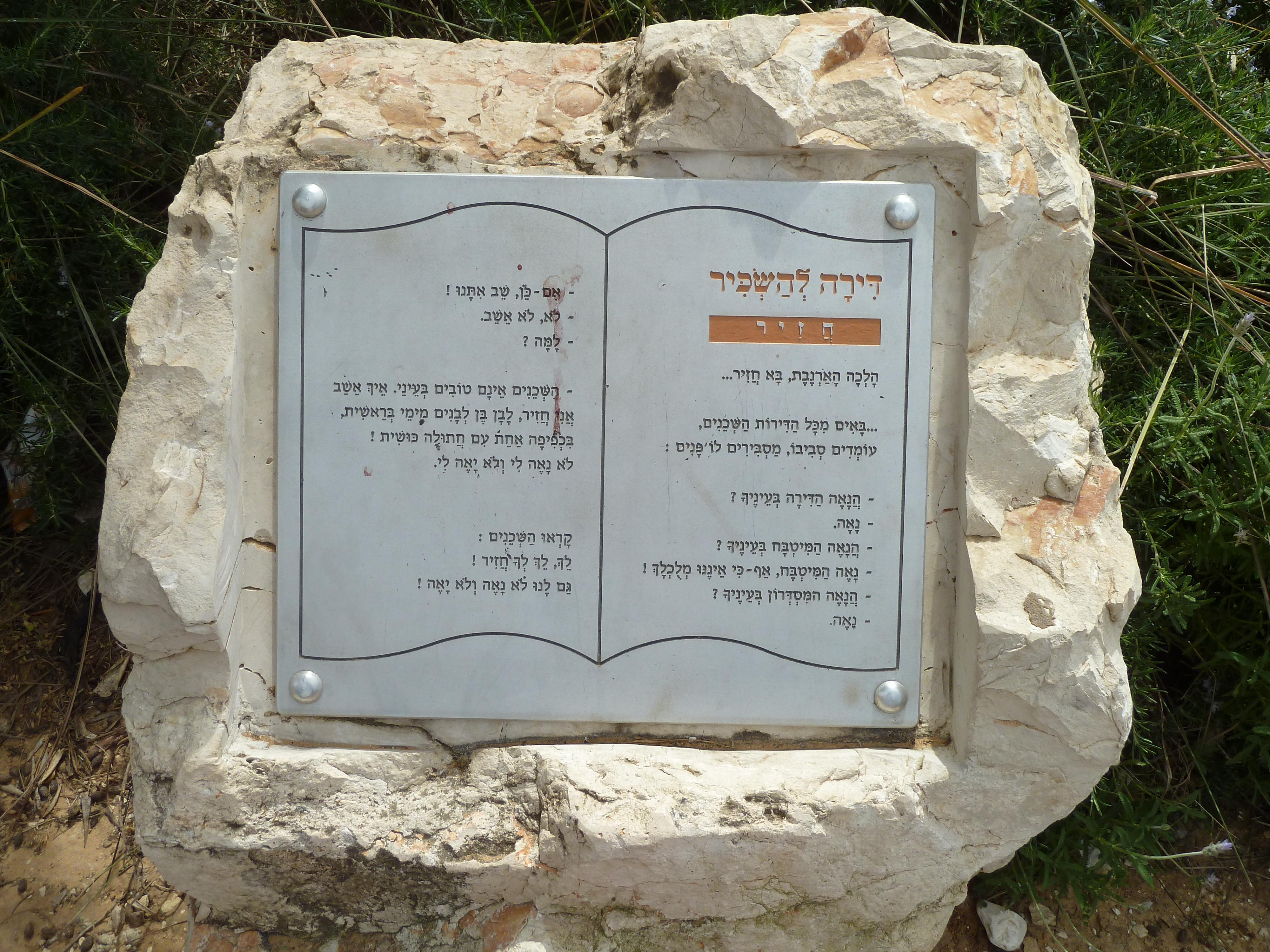 IFlat to Let - Statues by Richard Shila, based on the book by the poetess Leah Goldberg, Holon, Israel This image was taken as part of the Elef Millim project trip to Hussamssa in Holon in the Centre of Israel, which was held on Friday, 8th March 2013. To view all images uploaded as part of the Elef Millim Project